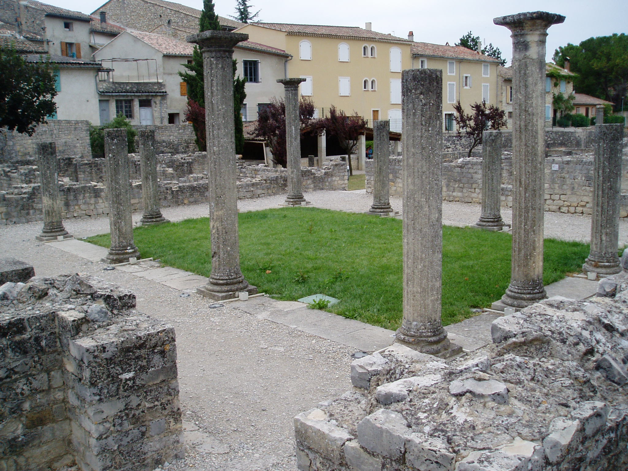 Roman domus at the archaelogical site in Vaison-la-Romaine, France. Photo by fi: Käyttäjä:Ohto Kokko